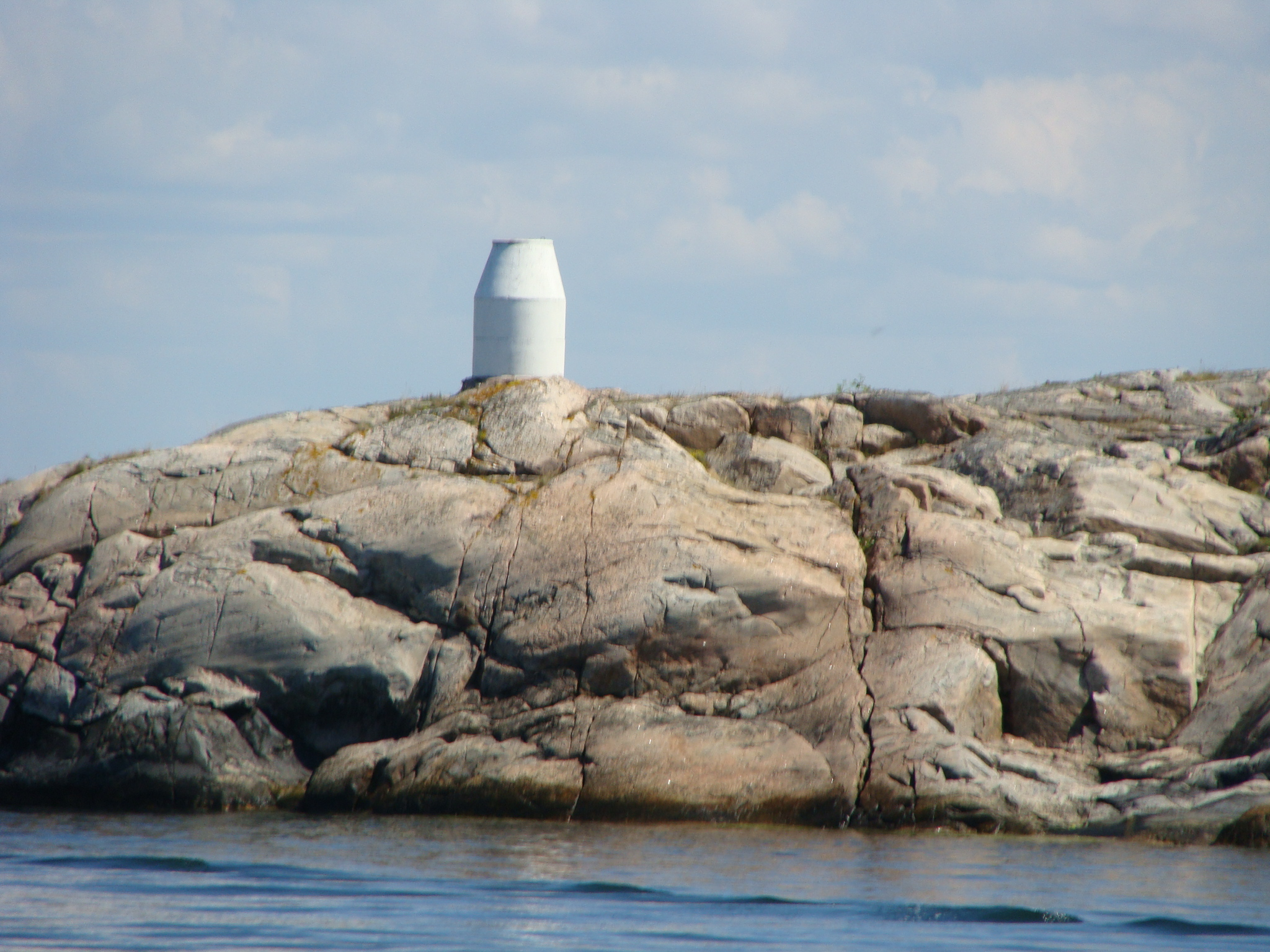 A day beacon (aid to navigation) made of concrete on Knivskär island in Archipelago Sea in Finland.